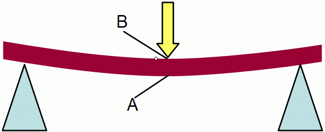 Schematic of a beam subject to bending